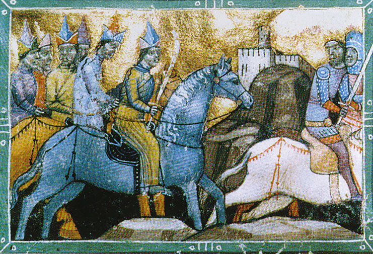 The Mongols in Hungary 1241. Hungary. Ink and paint on pergament. Height 25.3 cm, width 32.8 cm. Széchényi National Library, Budapest, fol. 63 recto, Inv. no. Clmae 404 (the picture is of a 19th century reproduction). From the Chronicum Pictum in Hungary's National Library. King Bela on the flight from the Mongols. The Mongol leader might be Qadan, a son of Ögedei.